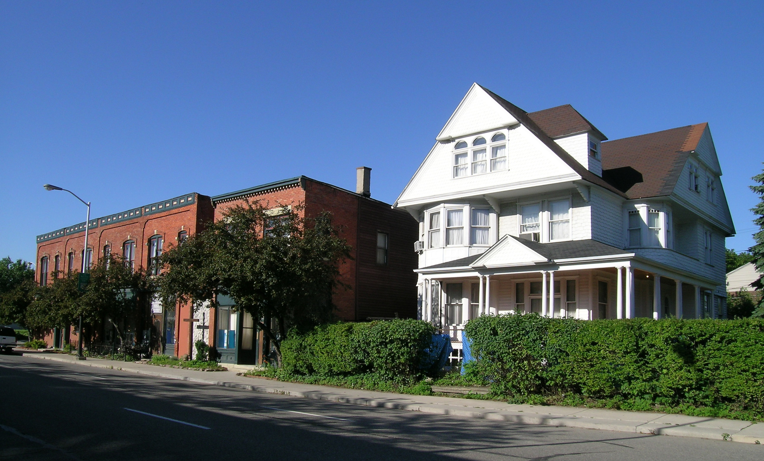 Contributing property buildings included in the boundary increase of West Canfield Historic District — in Detroit, Michigan.